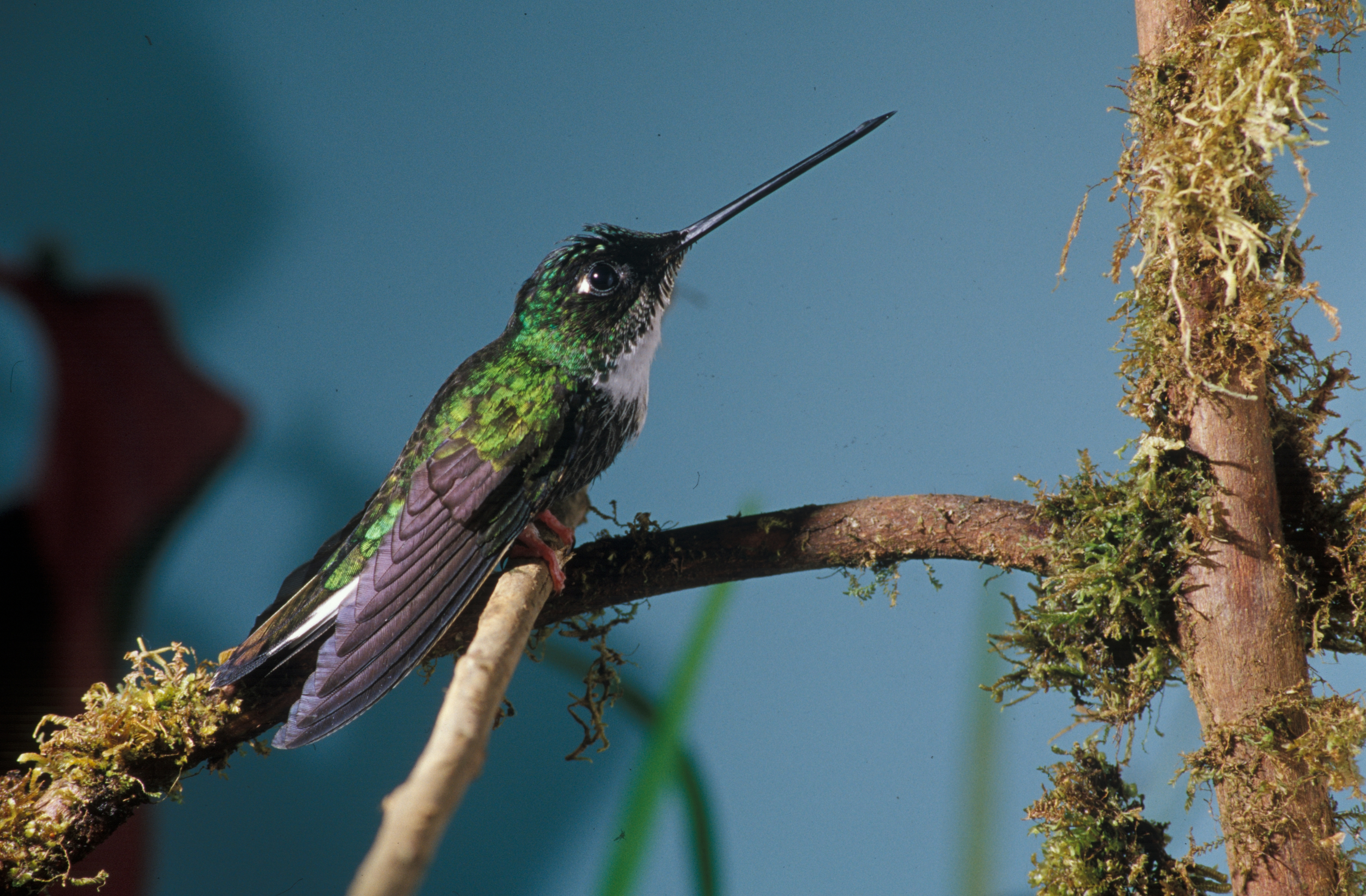 Collared Inca (Coeligena torquata) from the NBII Image Gallery. A female at Cordillera del Cóndor, Ecuador.